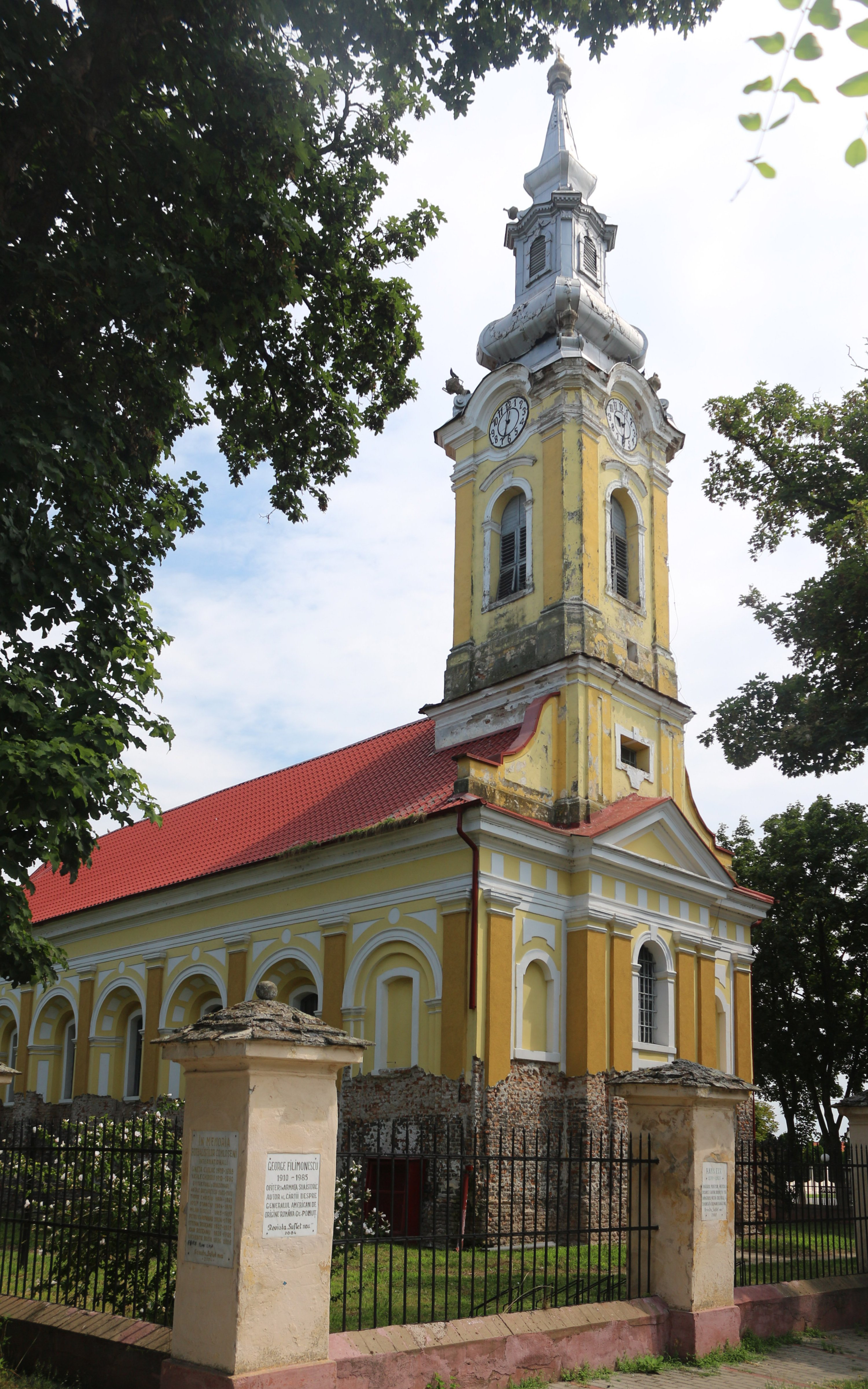 Orthodox church "Adormirea Maicii Domnului", Comloșu Mare, Timiș County, built 1796